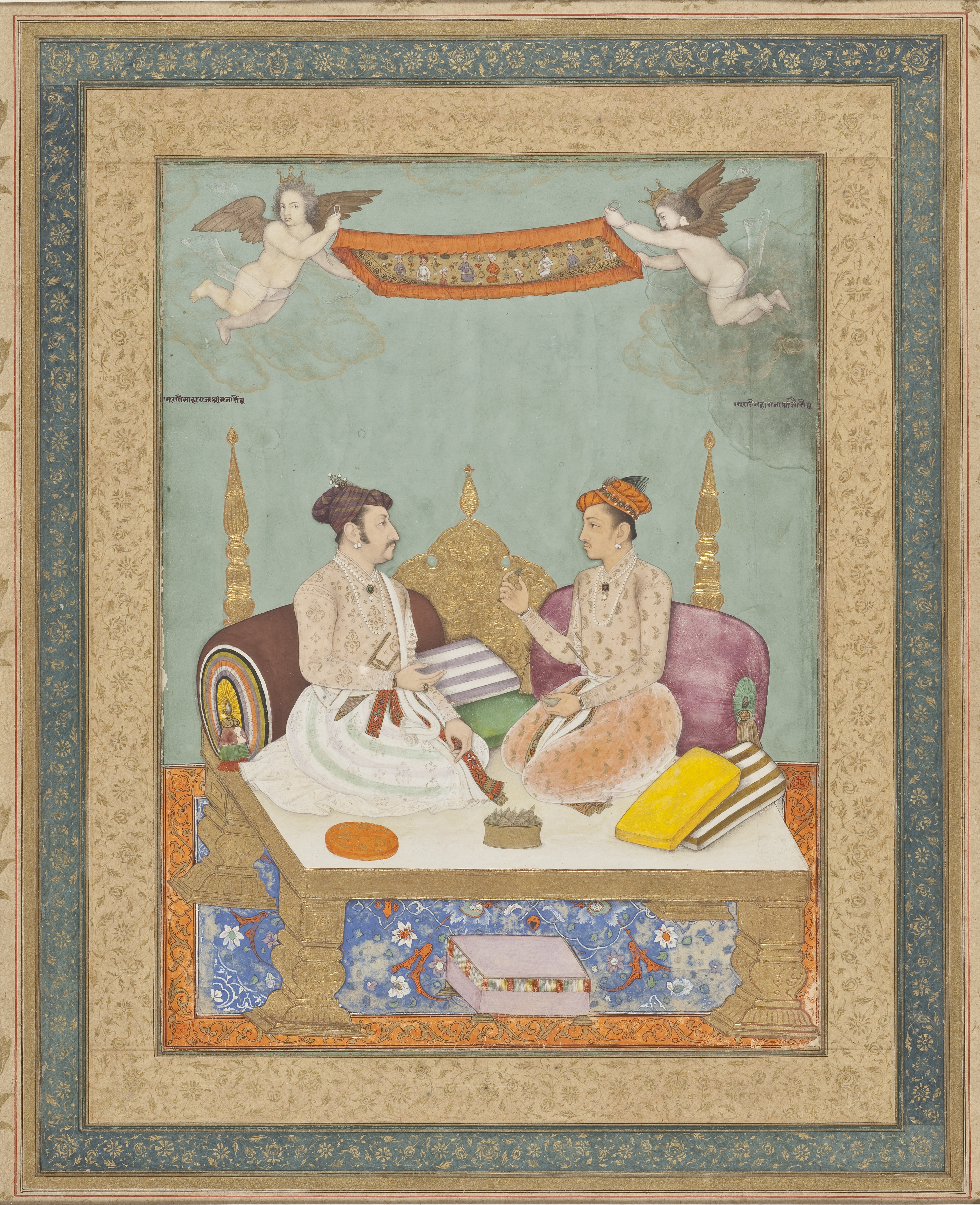 Bichitr (attributed to) (India) Maharaja Jai Singh of Amber and Maharaja Gaj Singh of Marwar, Folio from the Amber Album, circa 1630 Painting; Watercolor, Opaque watercolor, gold, gesso, and ink on paper, Image: 9 7/8 x 7 1/4 in. (25.08 x 18.42 cm); Sheet: 17 3/4 x 13 1/2 in. (45.09 x 34.29 cm) From the Nasli and Alice Heeramaneck Collection, Museum Associates Purchase (M.80.6.6) South and Southeast Asian Art Department.